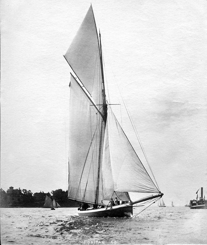 Yacht Puritan as photographed by John S. Johnston (c1839 - 1899) of New York City in the late 1880s or 1890s.